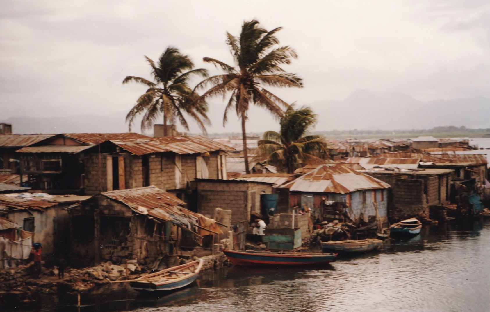 Fishing village in haiti